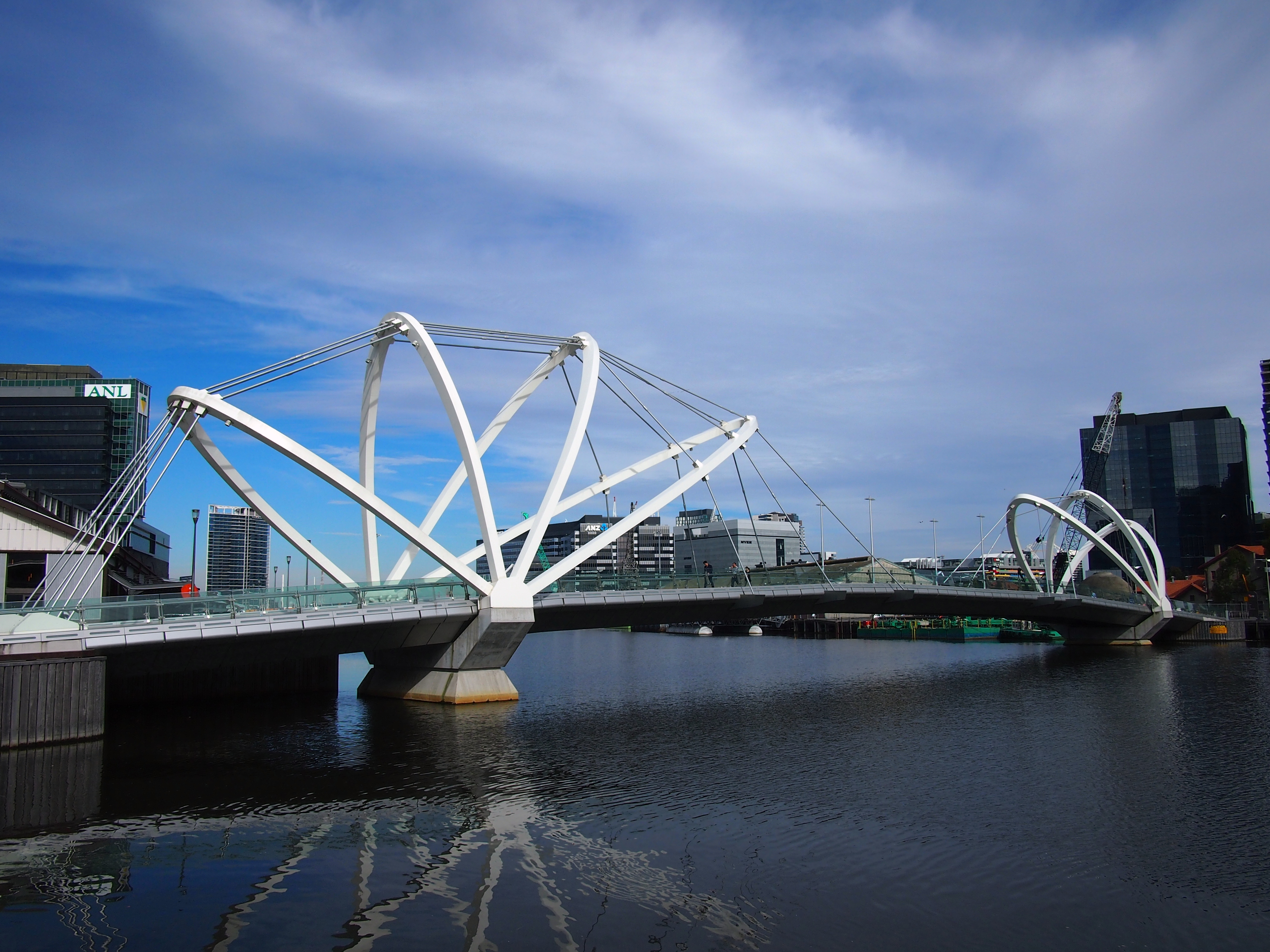 Seafarers Bridge viewed from the east